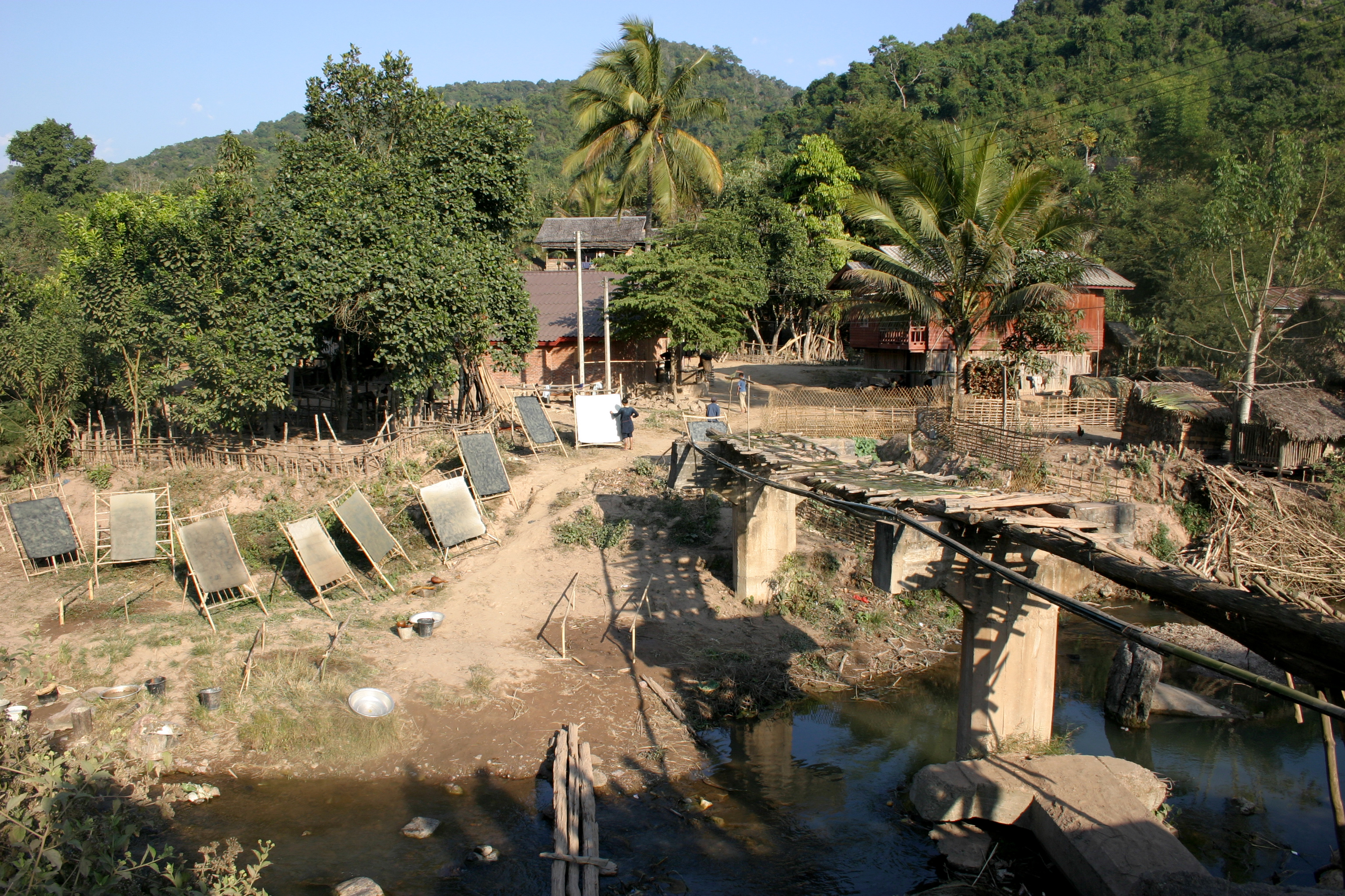 Lanten village in Luang Namtha district in Luang Namtha Province, Laos.